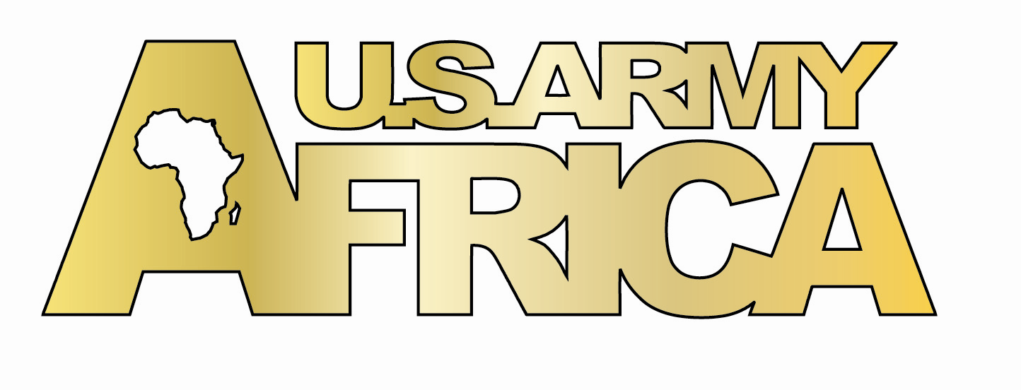 U.S. Army Africa Emblem